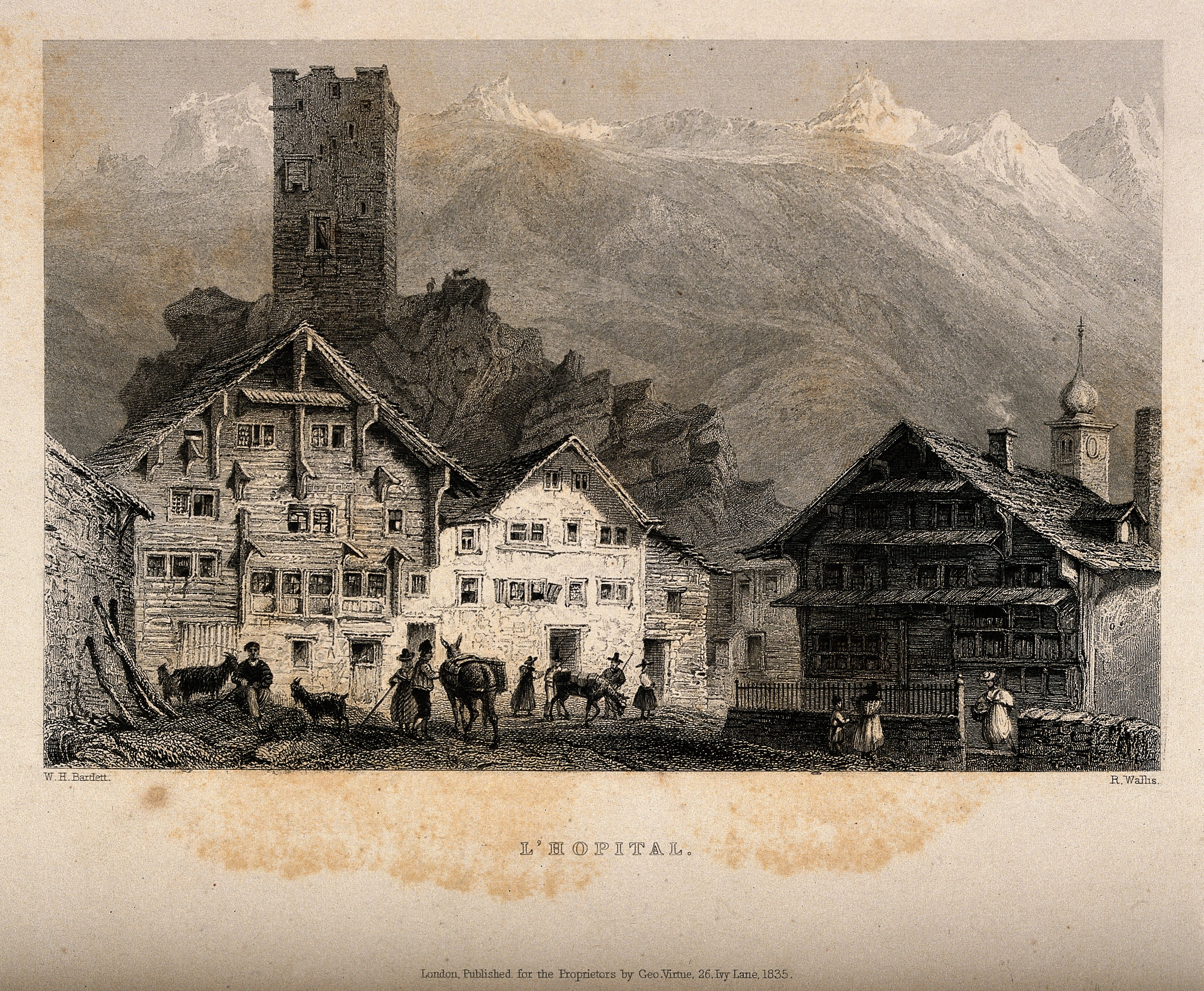 Hospental, a castle keep and a range of mountains (the Alps). Engraving by R. Wallis, 1835, after W.H. Bartlett. Iconographic Collections Keywords: William Henry Bartlett; Robert Wallis